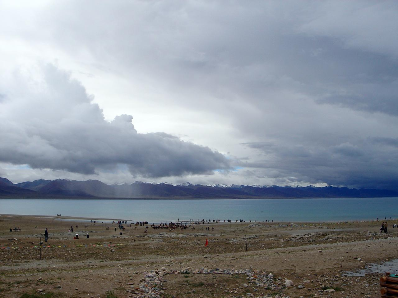 Namtso holly lake in Tibet, China